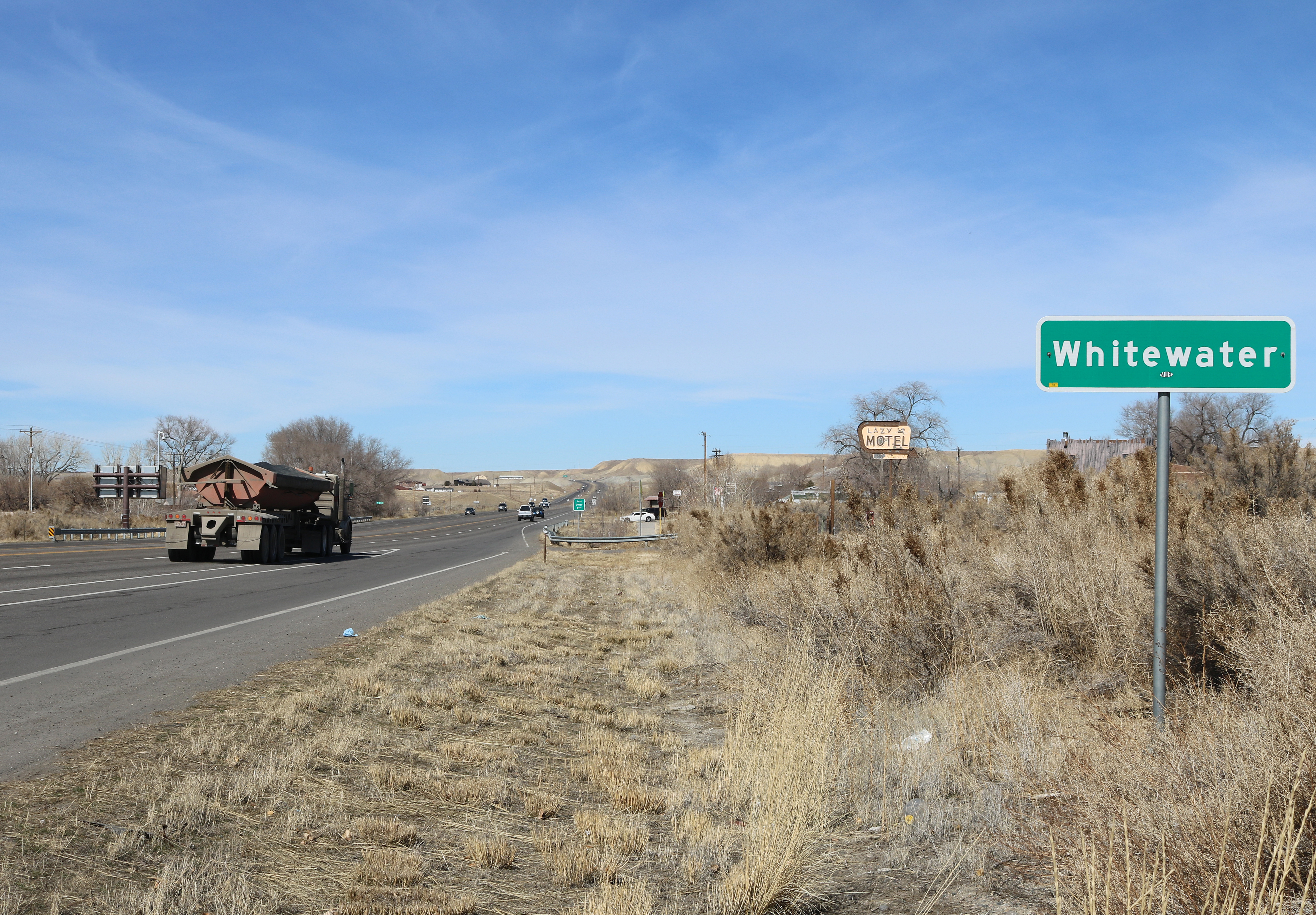 Whitewater, Colorado, an unincorporated community in Mesa County. The road in the picture is U.S. Highway 50.